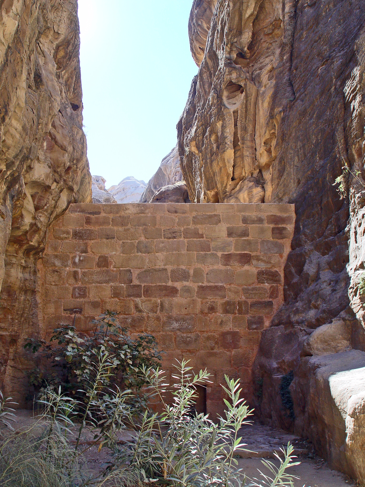 Nabataean Dry dam in Petra Siq, Jordan